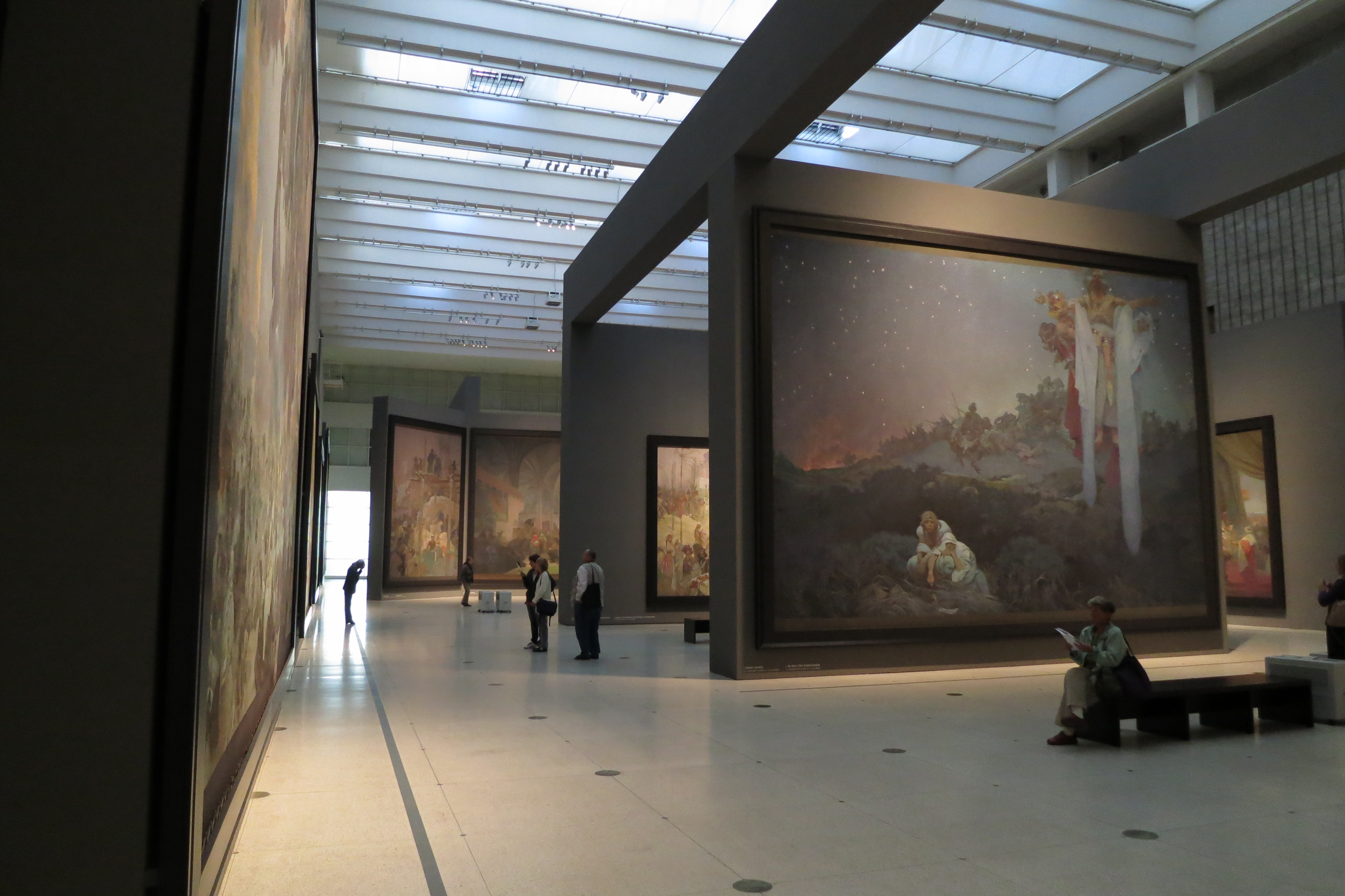 Overview of Veletržní Palác with The Slav Epic, Prague.